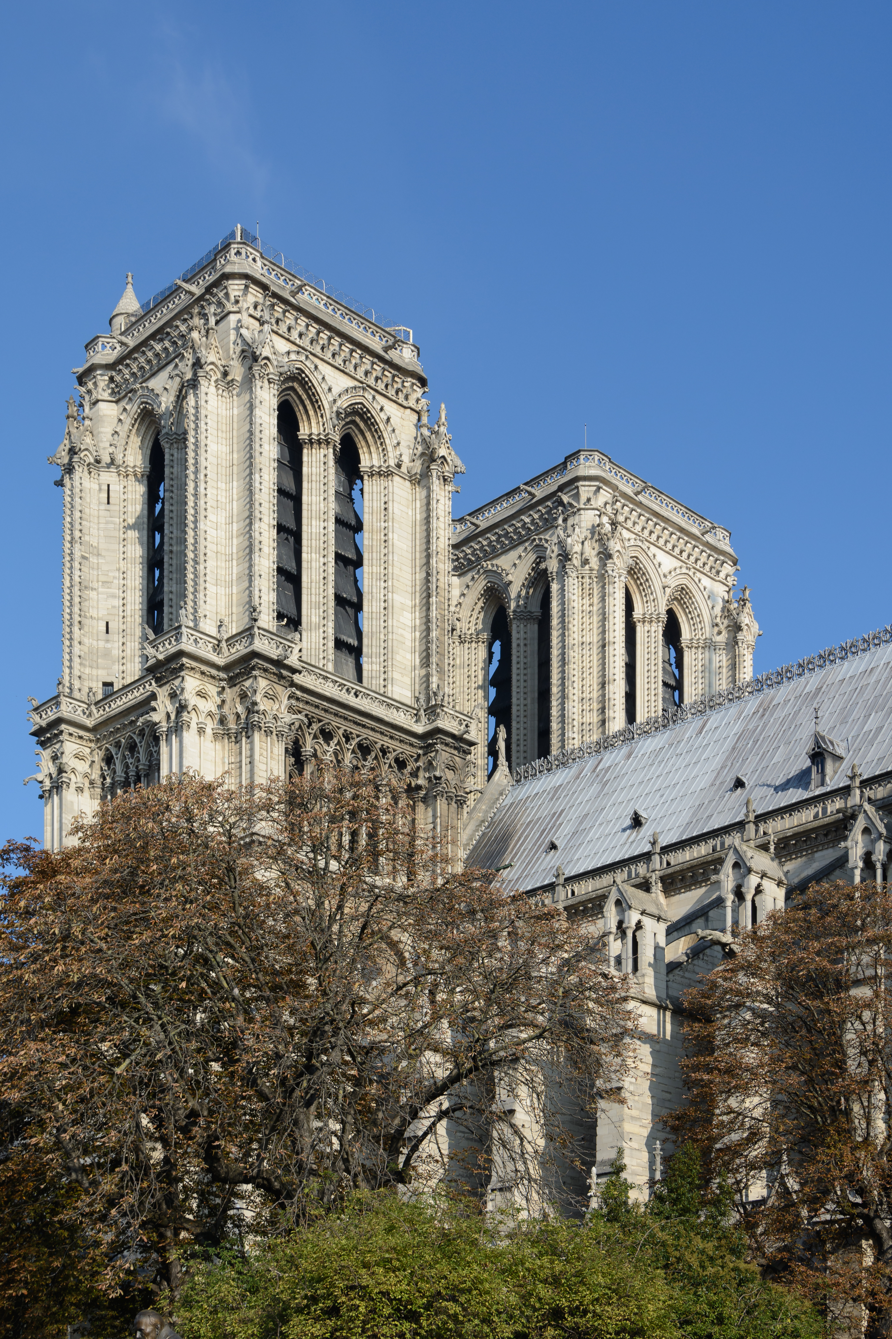 Southeast view of the towers of cathedral Notre-Dame de Paris, France .